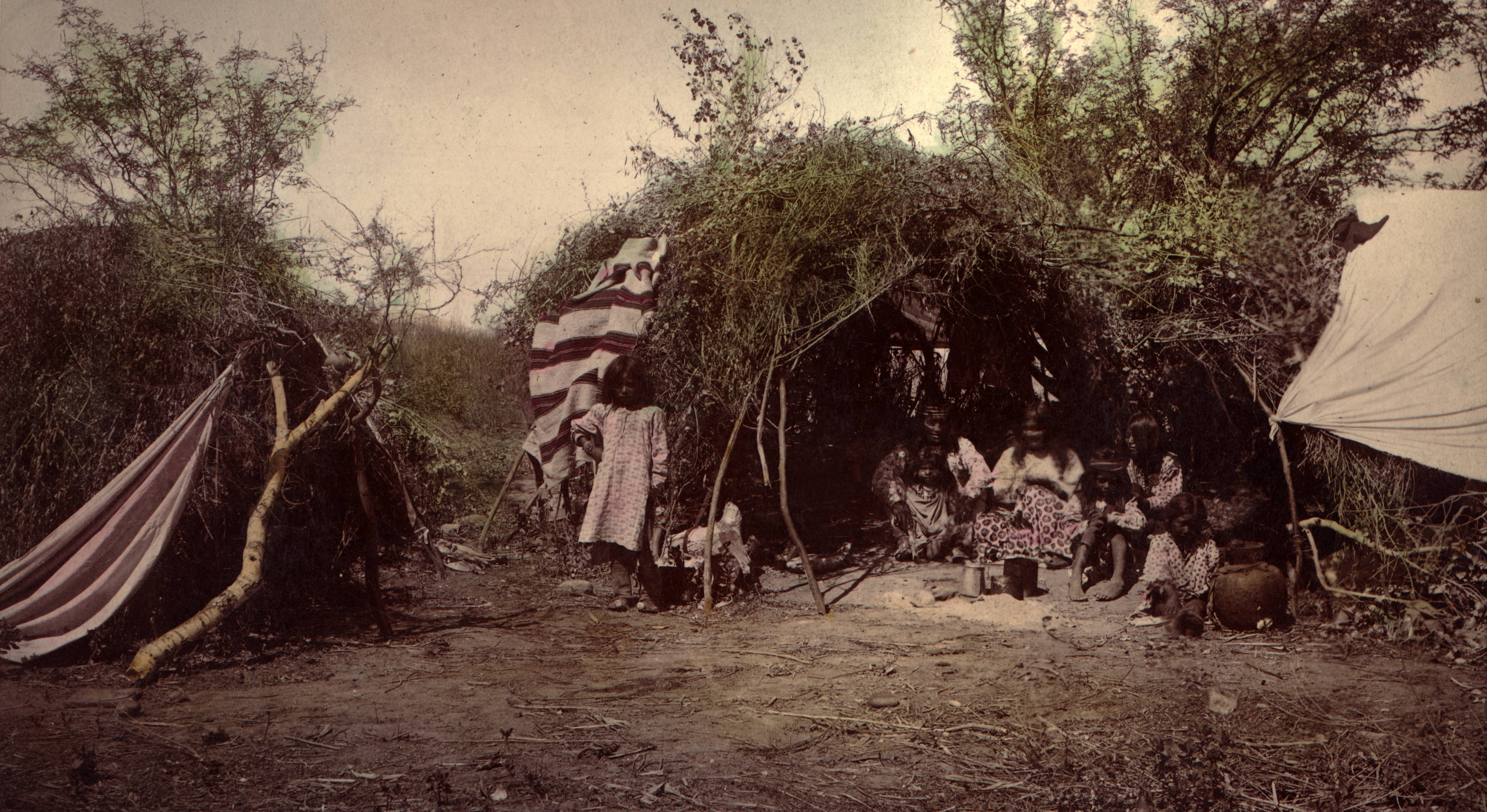 View of a Native American Apache camp, Arizona, shows a Chiricahua Apache medicine man with his family inside a brush wickiup.